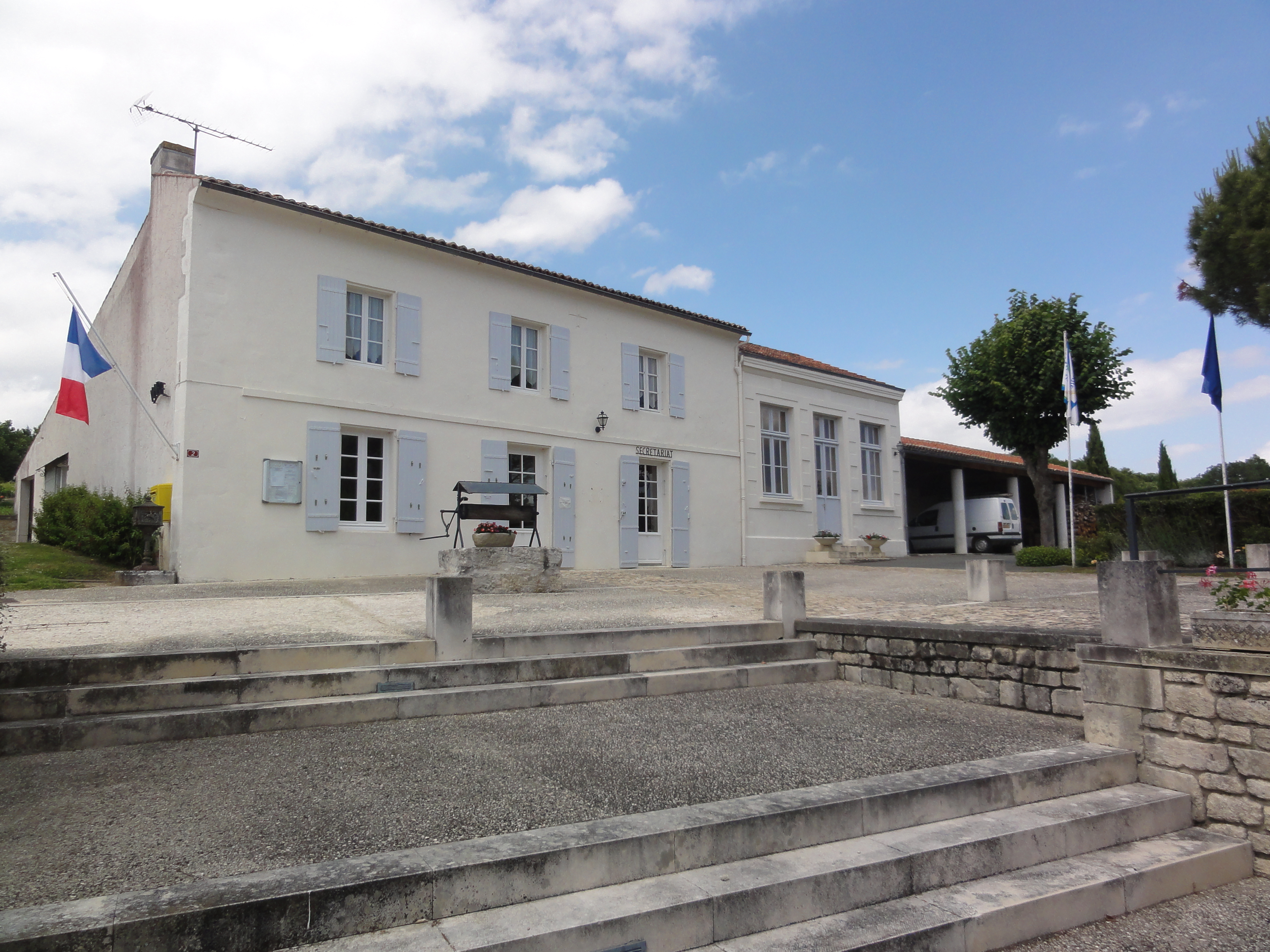 Fenioux (Charente-Maritime) mairie